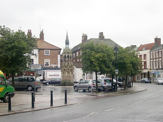 Horncastle Market Place. Unfortunately this photograph was not taken on market day so the market place is simply a car park. The mini Albert Memorial in the centre of the marketplace is a memorial to Edward Stanhope. In the 19th Century Horncastle was noted for its Horse Fair. Now in the 21st century it has become a noted centre for antiques and bric-a-brac.